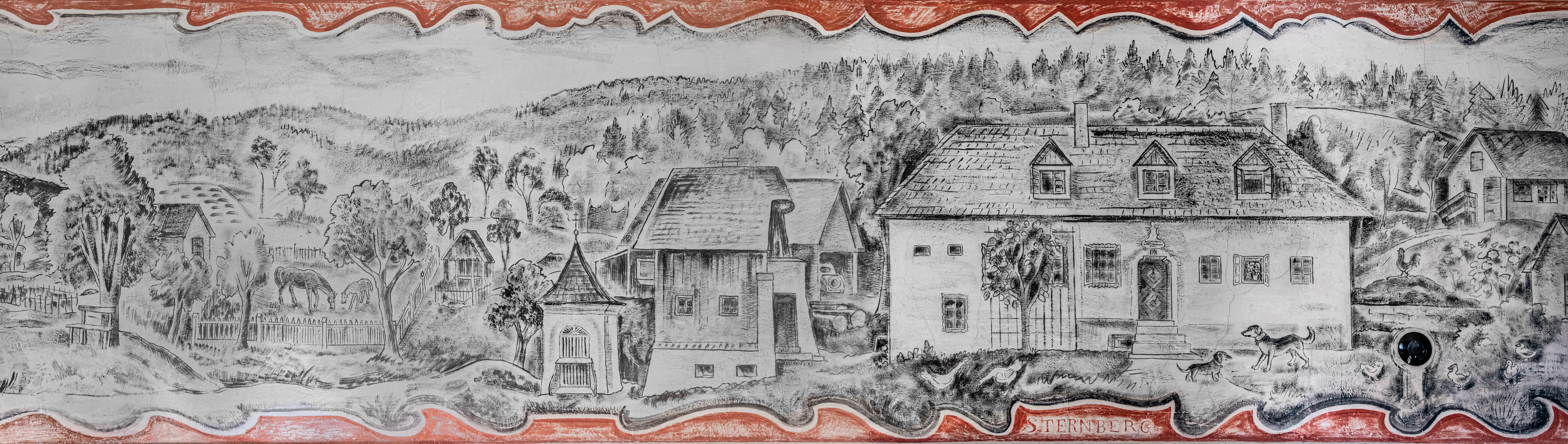 Around 1940 the graphic artist and painter Franz von Zülow stayed in the farm house Sternberg in Scharnstein. In this periode he painted murals in the living room of the house. It shows a panoramic view of Viechtwang and Scharnstein. Diese Datei wurde im Rahmen von WikiDaheim 2019 in Österreich erstellt und hochgeladen.Sie wurde dem Themenbereich Denkmalschutz zugeordnet.